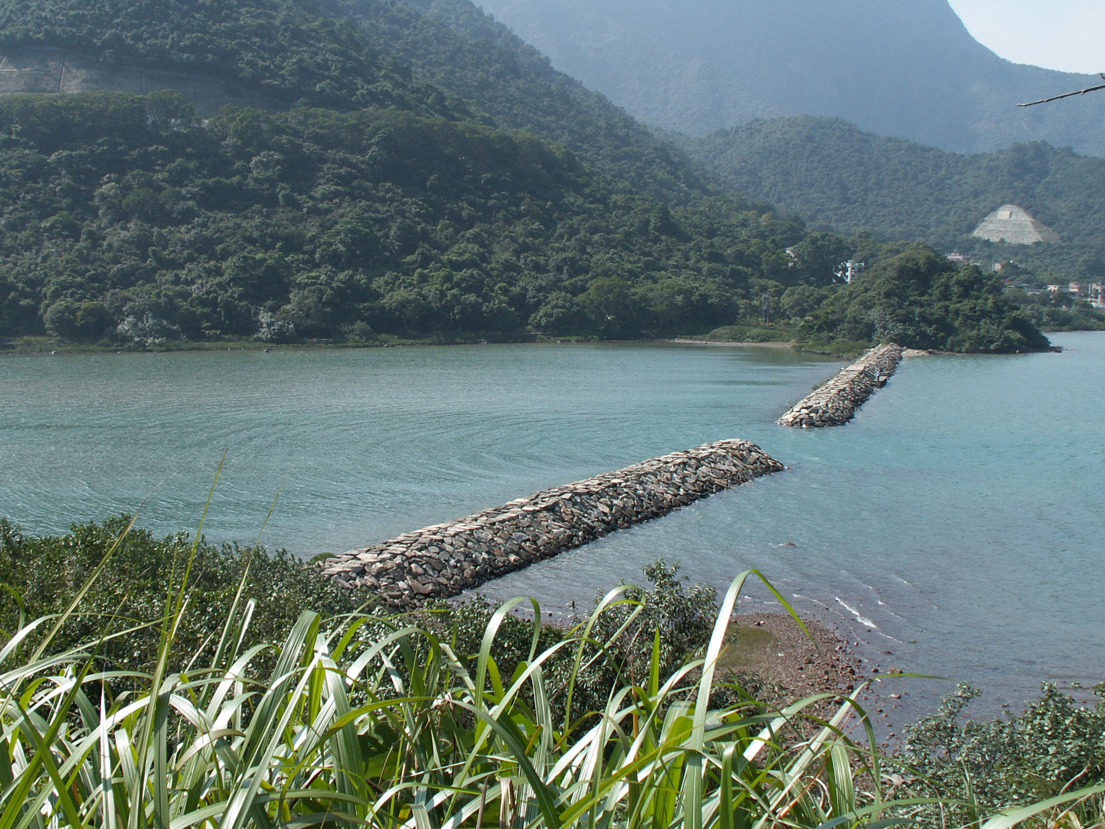 Water waves diffracted through a gap. Photo taken by User:Lorenzarius on 19 November 2005, at Three Fathoms Cove, near Yong Shue O, Tai Po, Hong Kong.